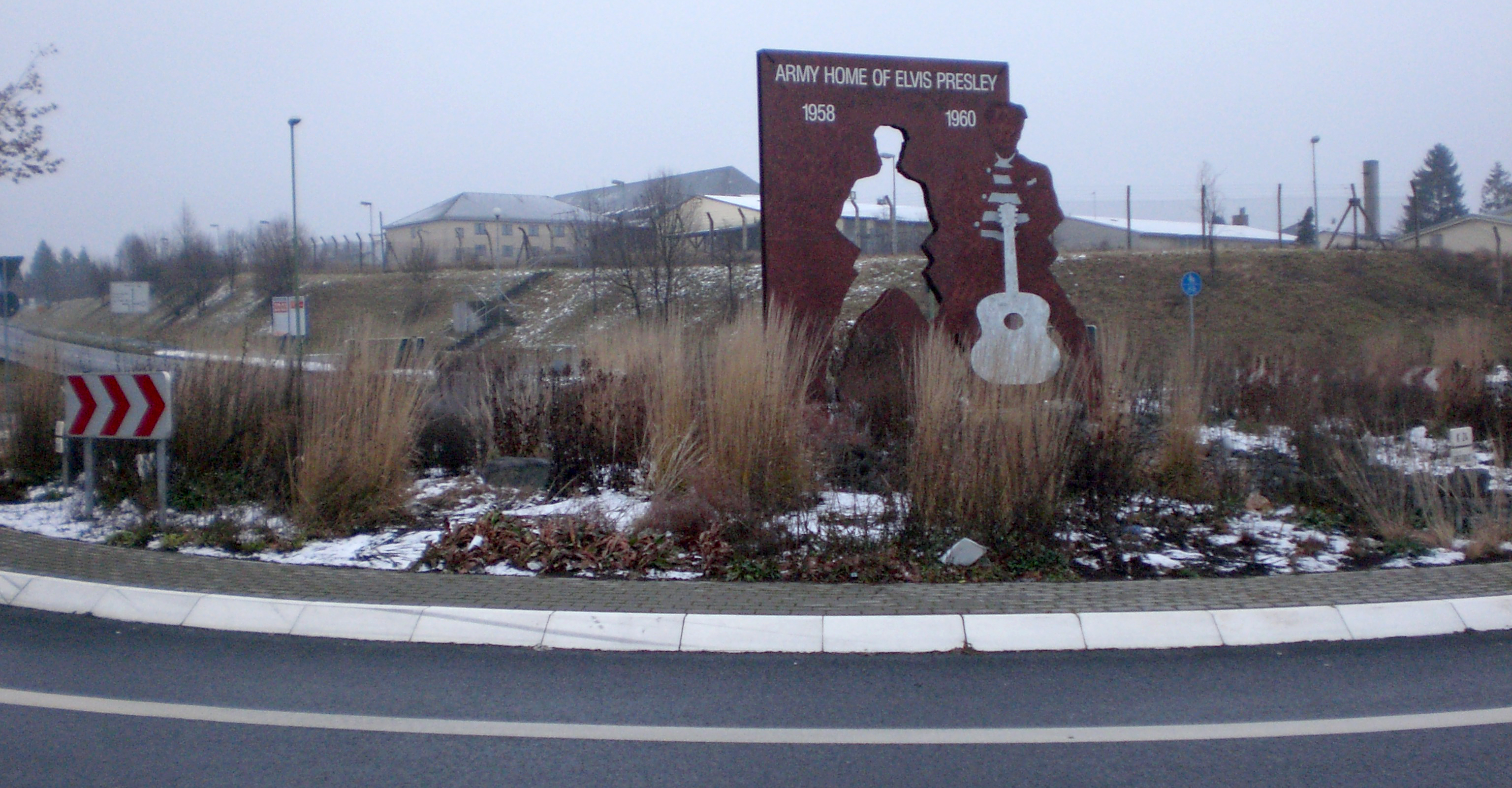 Elvis Presley-Monument at former Ray Barracks, Friedberg (Hesse), Germany